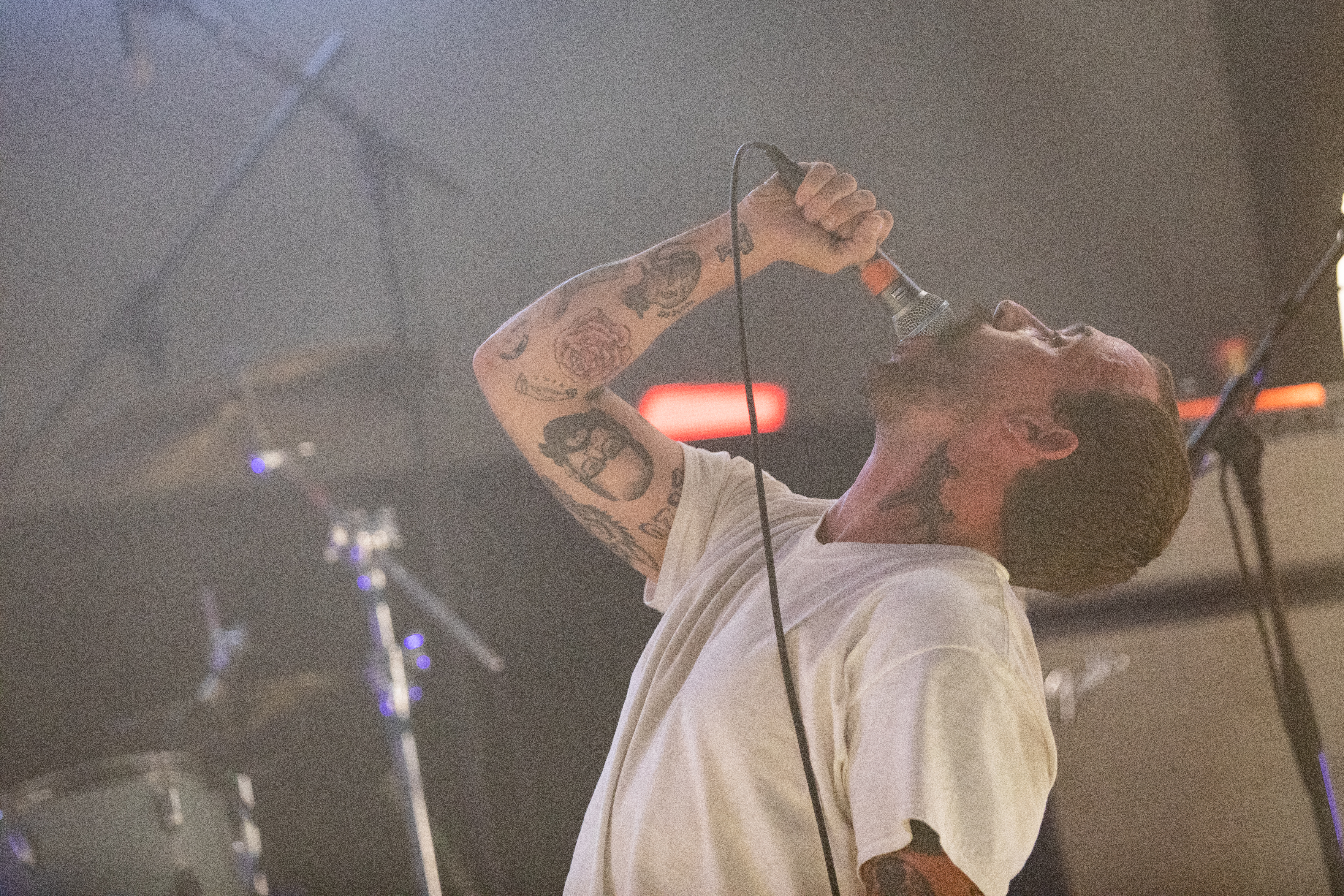 Idles Truth Stage Glastonbury 2019